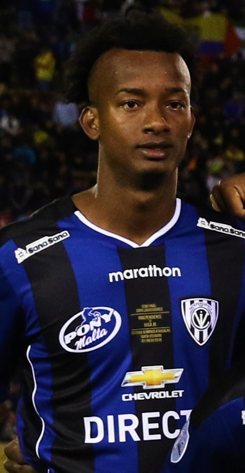 Jefferson Orejuela